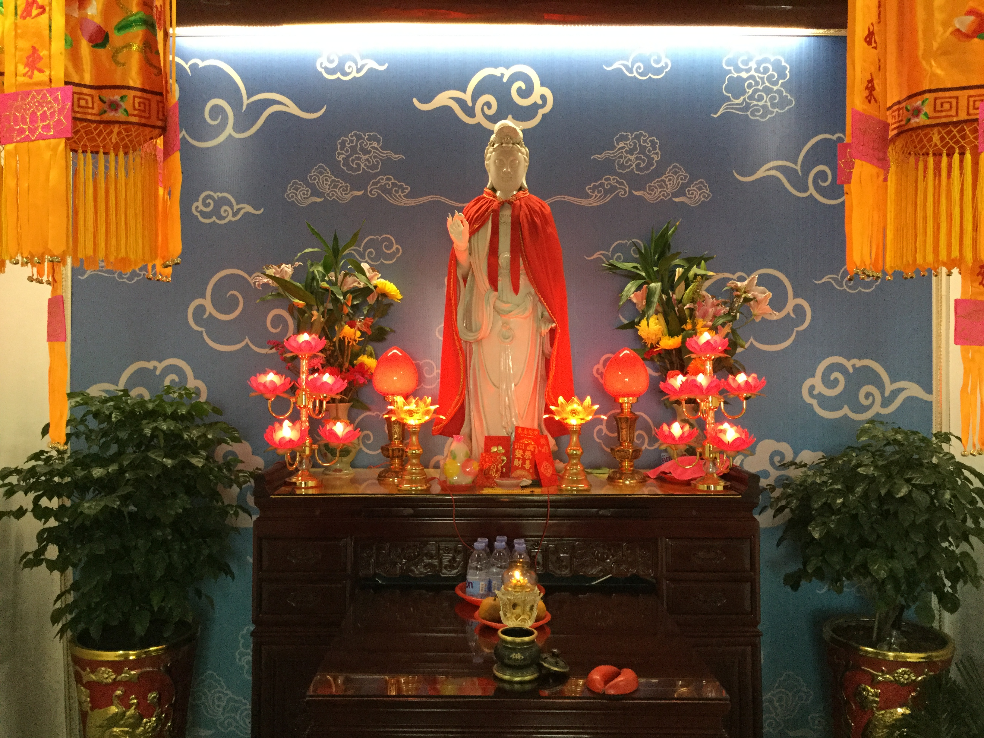 Guanyin of Tangpu Village, Jieyang